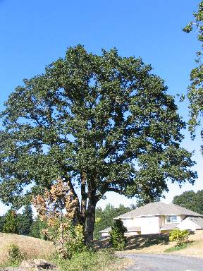 Image of a single Oregon Oak, taken near Hillsboro OR, Sept. 2004. Uploaded by creator.